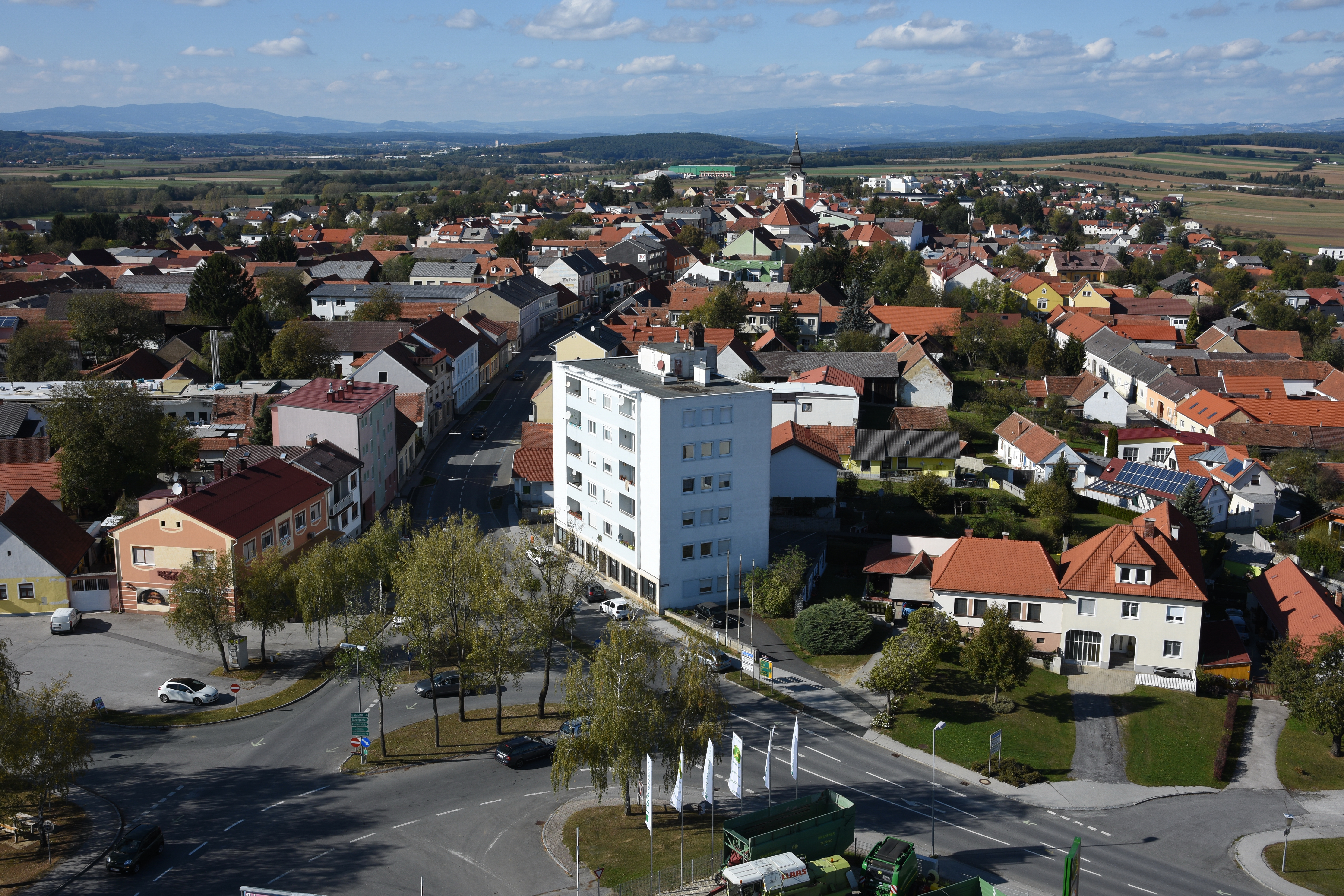 Großpetersdorf